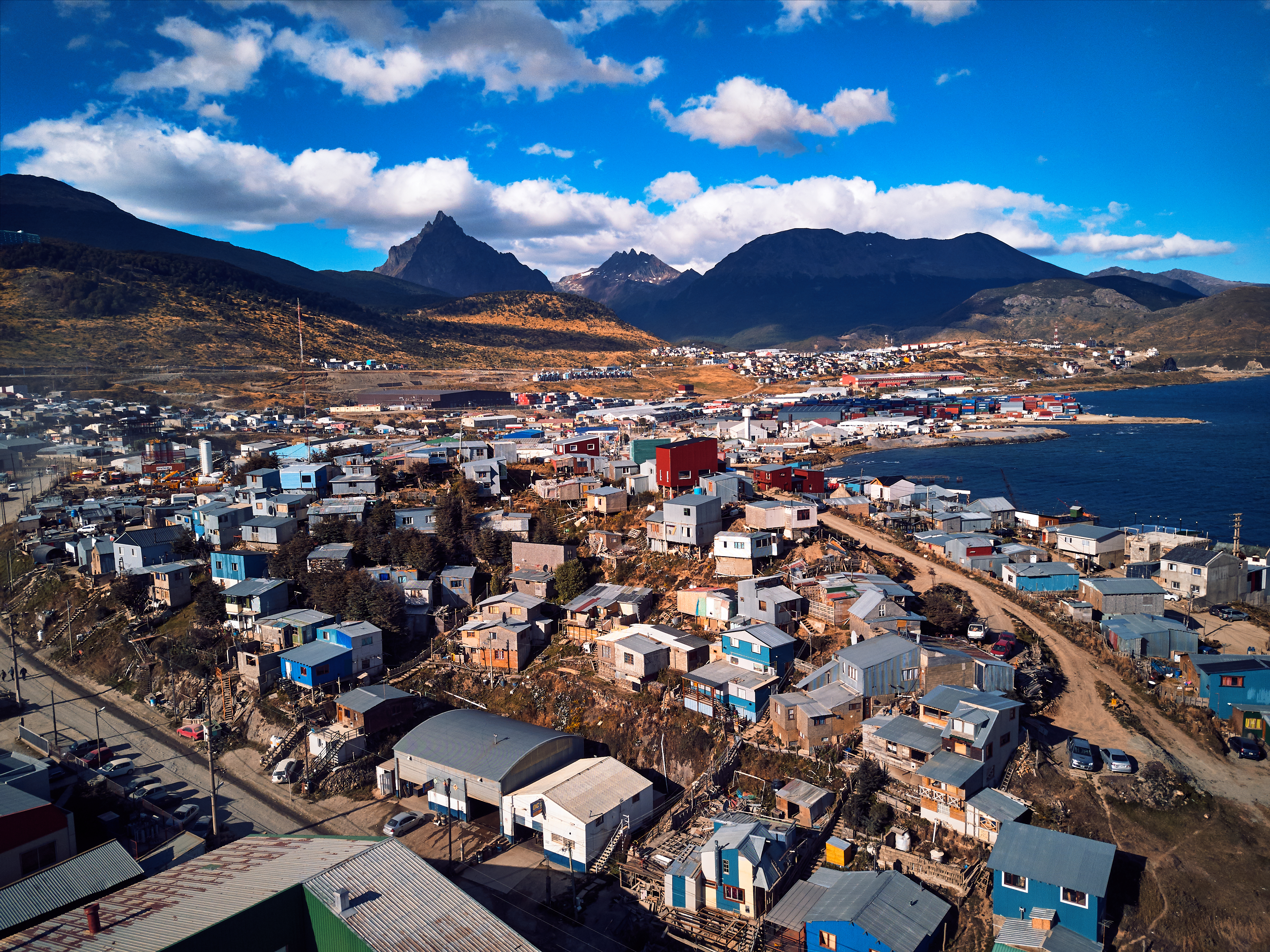 Barrio La Bolsita - the shanty town of Ushuaia